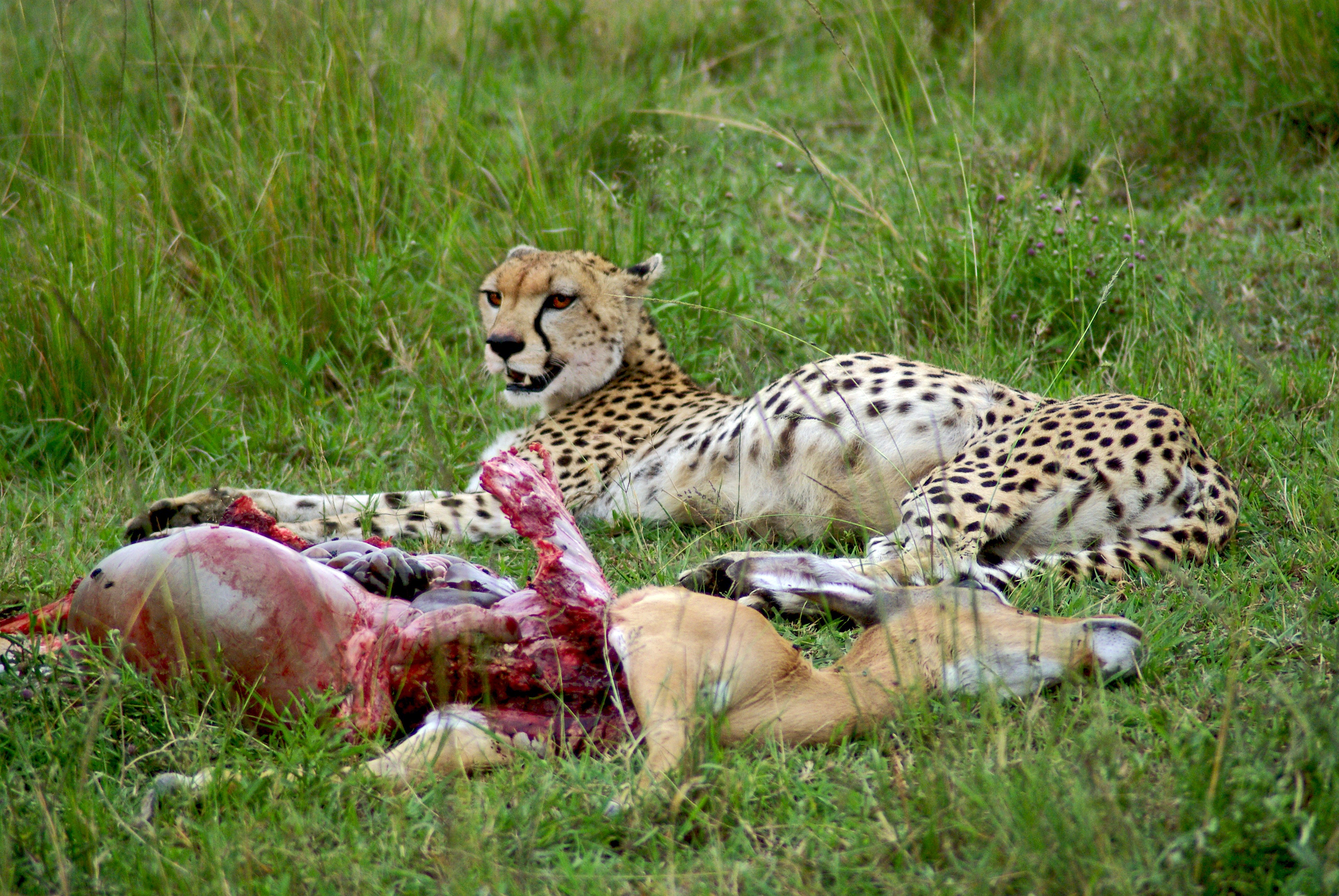 Cheetah (Acinonyx jubatus) with Impala (Aepyceros melampus) that it had recently killed, Masai Mara National Reserve, Kenya. See Image:Hyena arriving.jpg and Image:Hyenas_at_stolen_impala_kill.jpg. The time stamp is 10 hours too early.